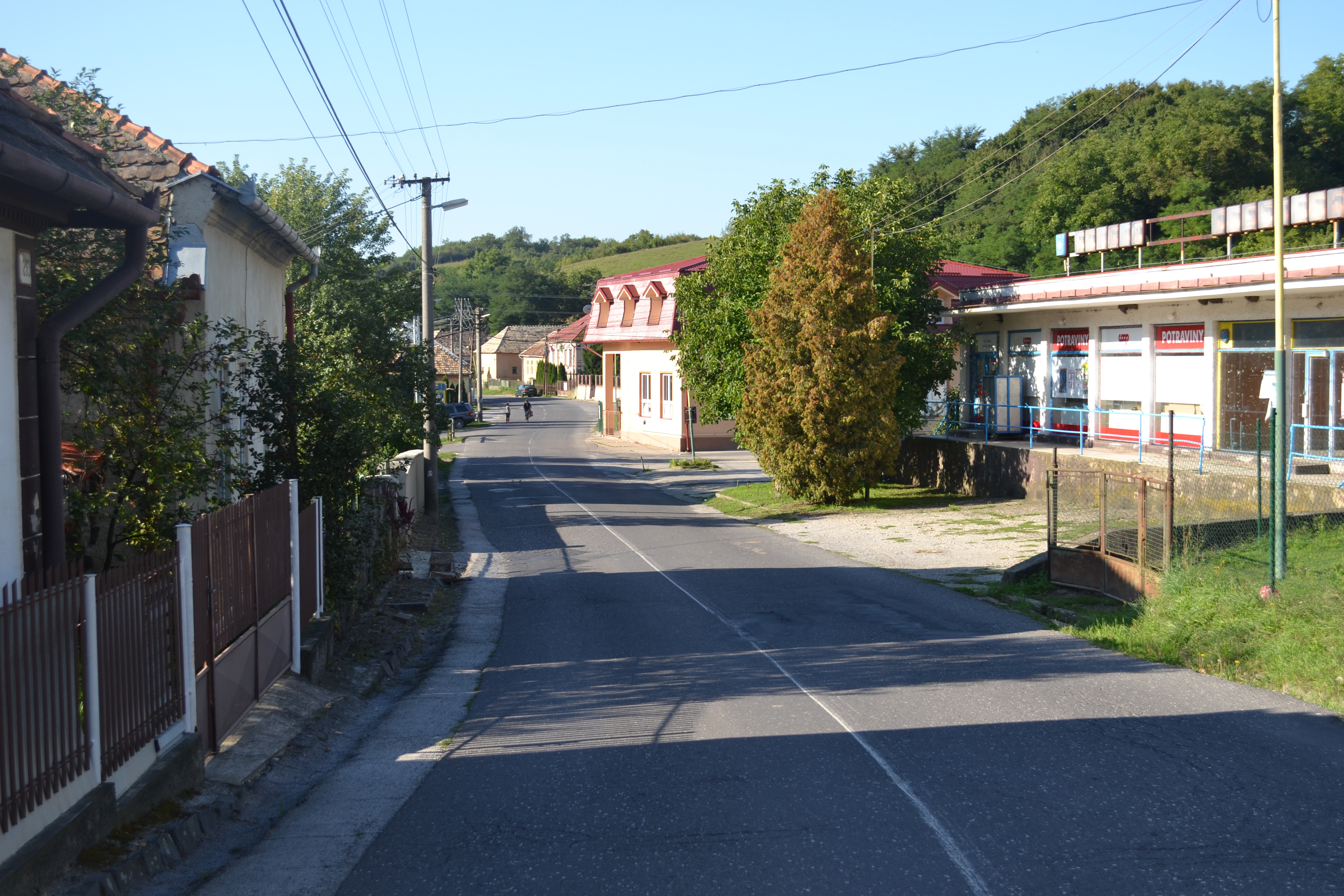 Street of the village Blhovce